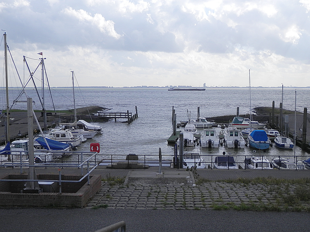 Ellewoutsdijk Harbour, Zeeland, Netherlands